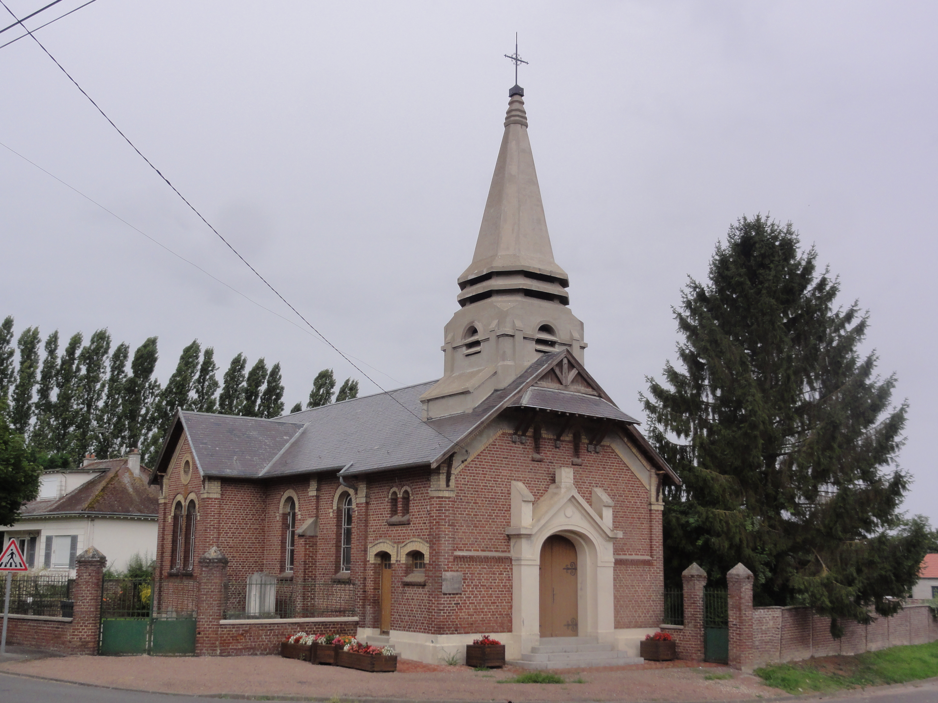 Hinacourt (Aisne) église Notre-Dame